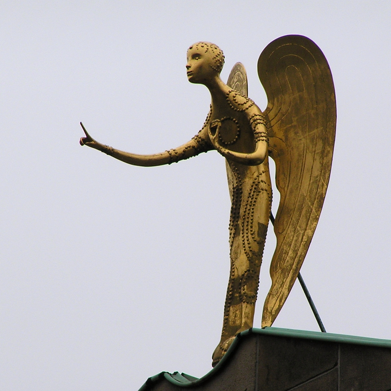 Angel by Ewald Mataré at the bishops house, Essen, Germany